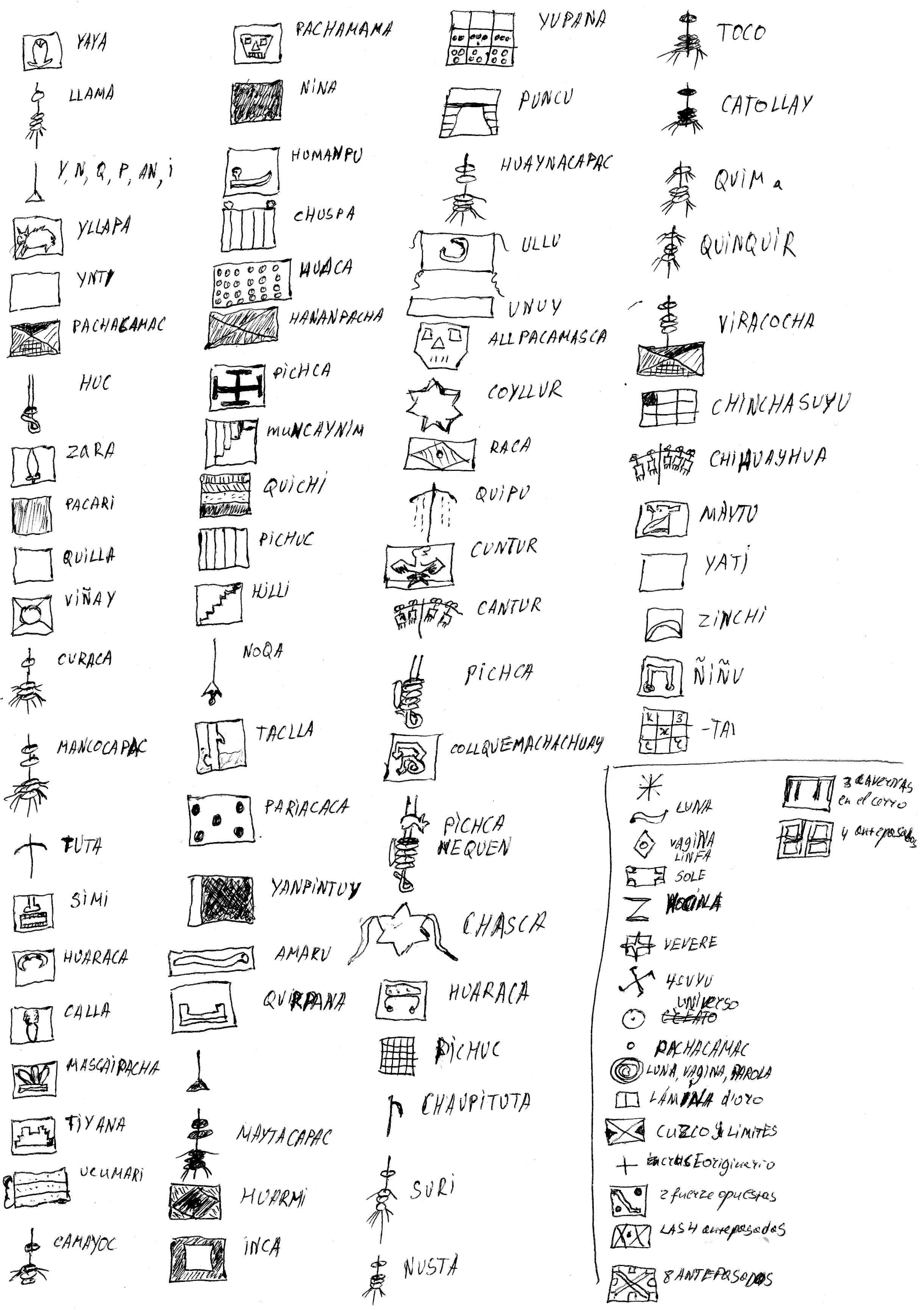 The signos of the inkas – tokapu and ticcisimis on the book “Exsul Immeritus Blas Valera Populo Suo” (detailed representation)